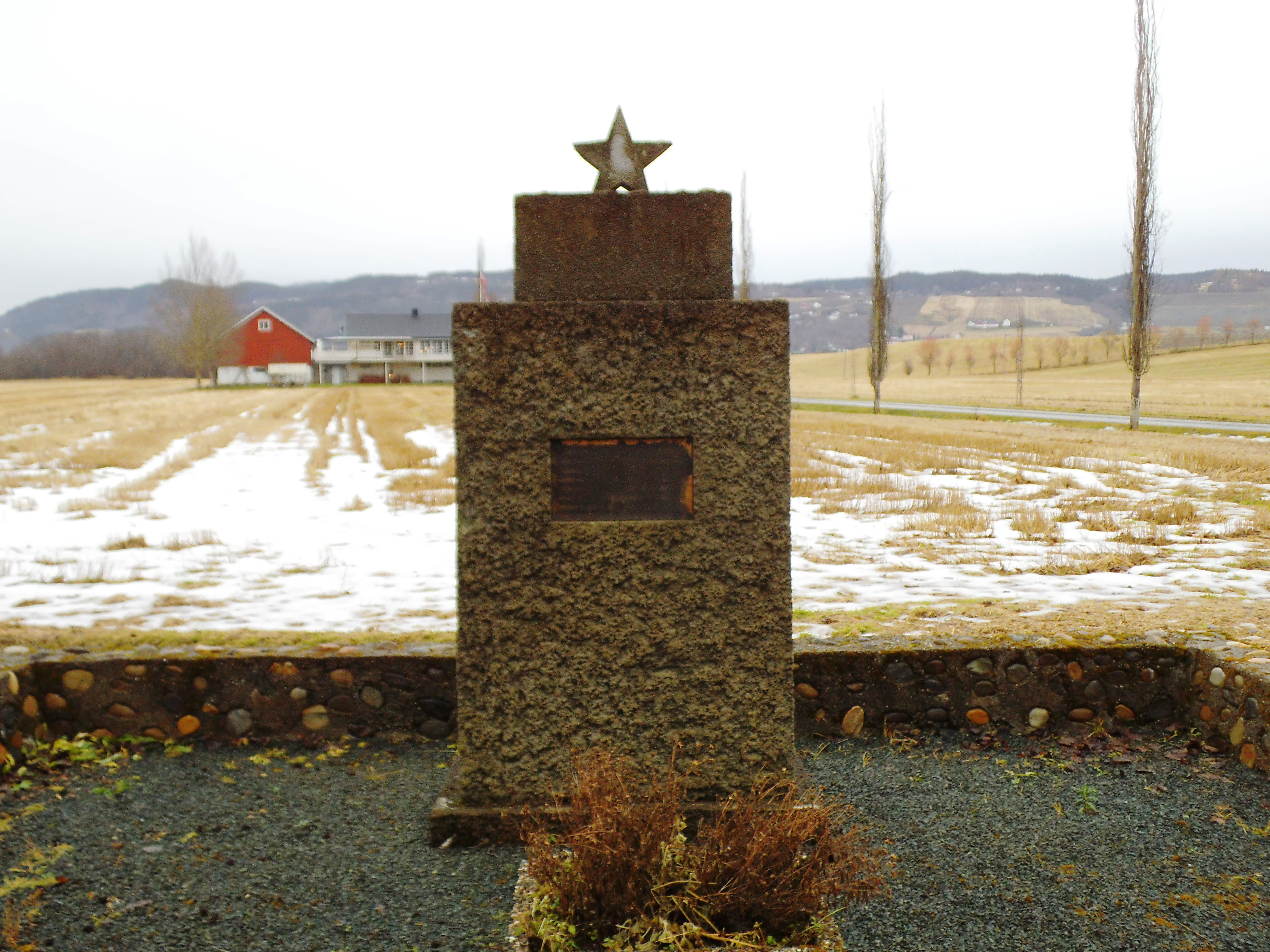 War Memorial in Stavsøra, Trondheim (close to Melhus). Prisoners of war from Yugoslavia and Soviet killed under World war 2.